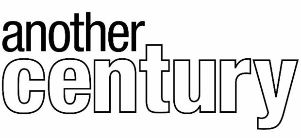 Another Century Logo